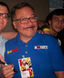 Humberto Velez